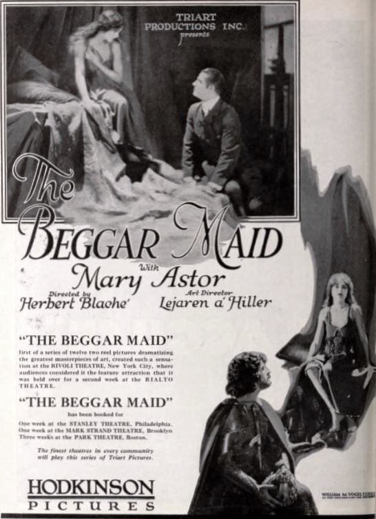 Advertisement for the American short drama film The Beggar Maid (1921), on page 6 of the November 26, 1921 Exhibitors Herald. The lower right side of the advertisement recreates the painting "King Cophetua and the Beggar Maid" by Edward Burne-Jones.